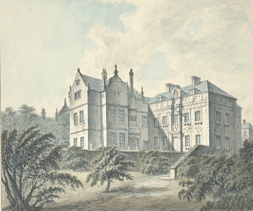 Brymbo House, Minera 1794